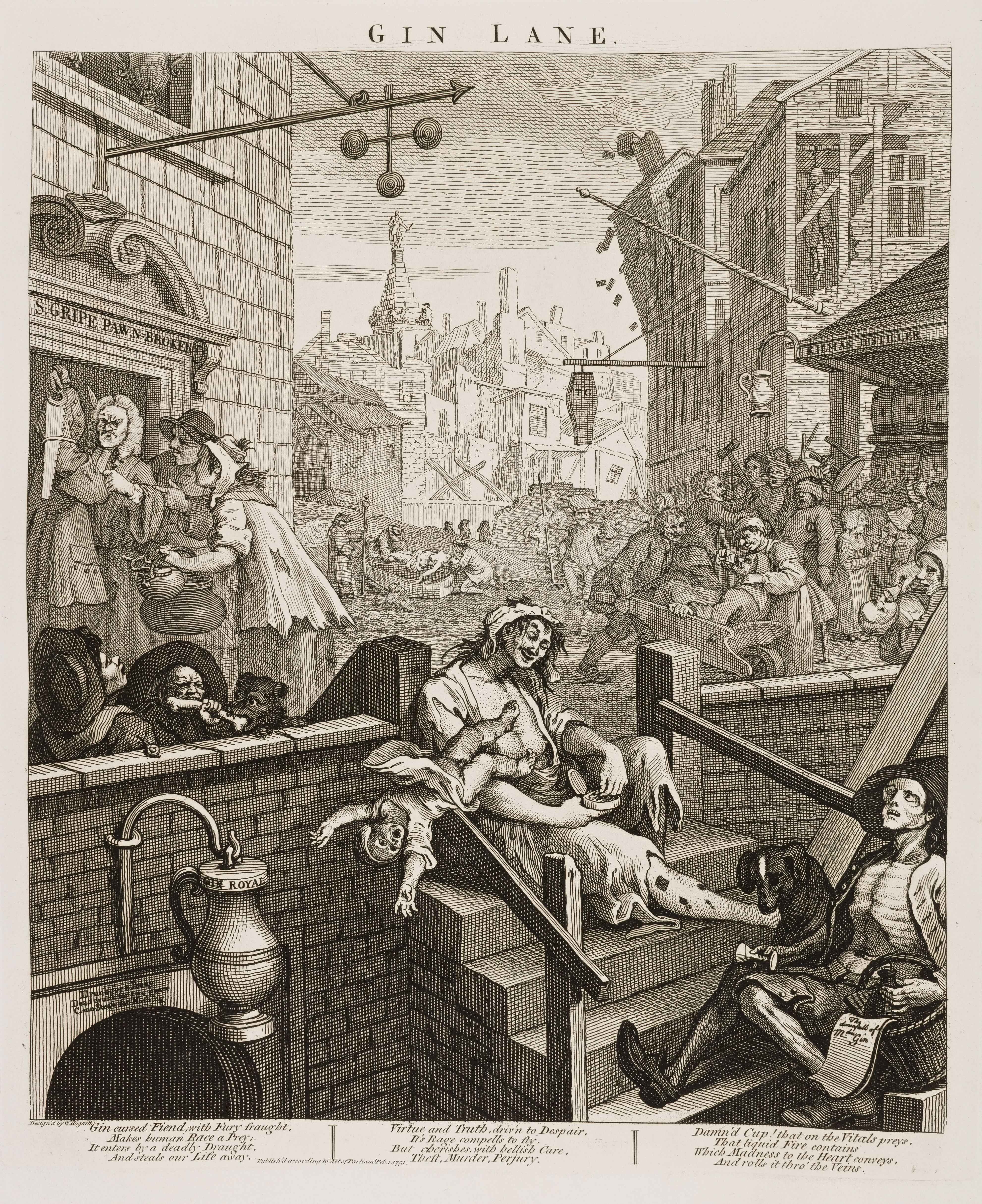 Gin Lane, from Beer Street and Gin Lane. A scene of urban desolation with gin-crazed Londoners, notably a woman who lets her child fall to its death and an emaciated ballad-seller; in the background is the tower of St George's Bloomsbury. The accompanying poem, printed on the bottom, reads: Gin, cursed Fiend, with Fury fraught, Makes human Race a Prey. It enters by a deadly Draught And steals our Life away. Virtue and Truth, driv'n to Despair Its Rage compells to fly, But cherishes with hellish Care Theft, Murder, Perjury. Damned Cup! that on the Vitals preys That liquid Fire contains, Which Madness to the heart conveys, And rolls it thro' the Veins.